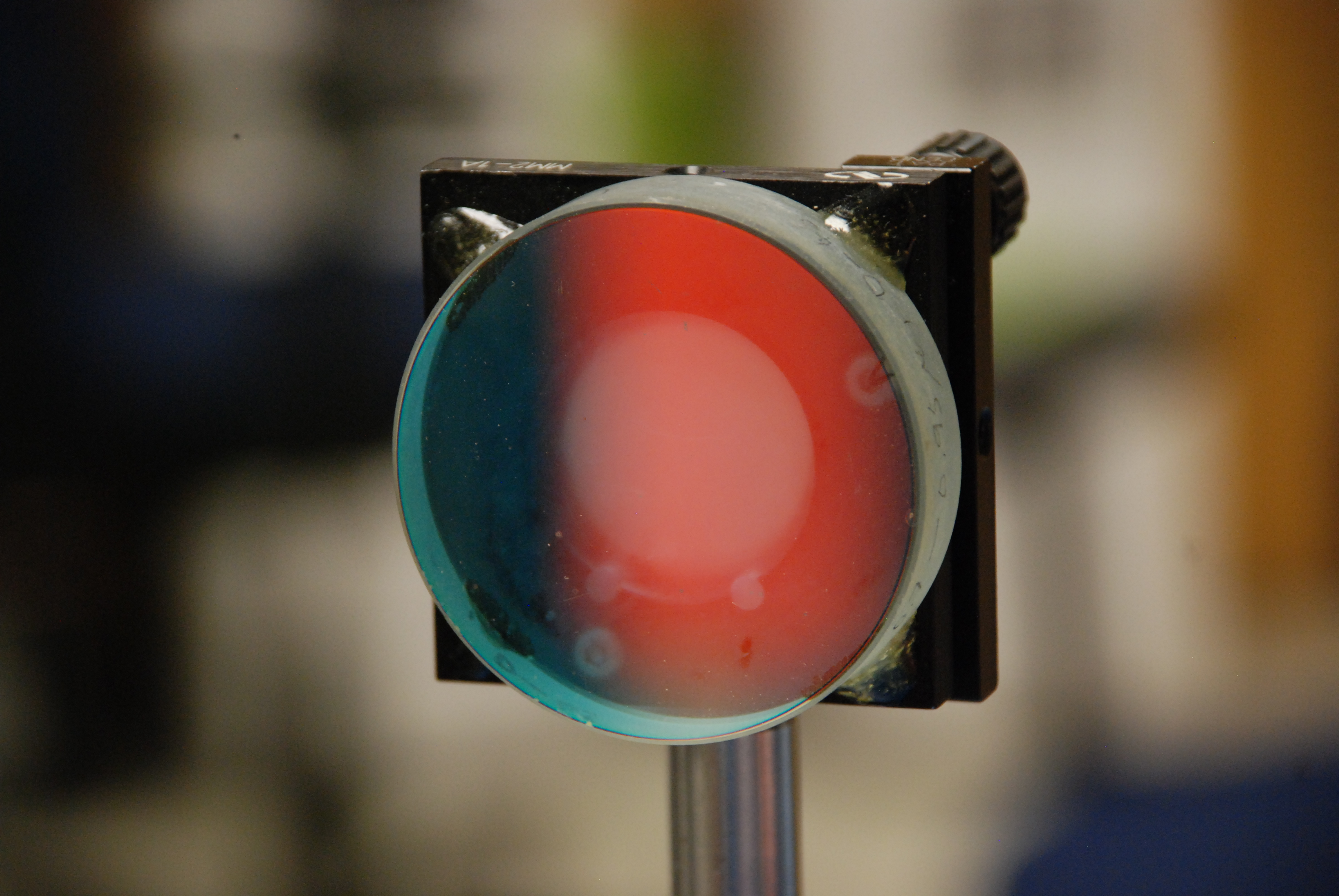 Dichroic mirror used for cold atoms experiments.